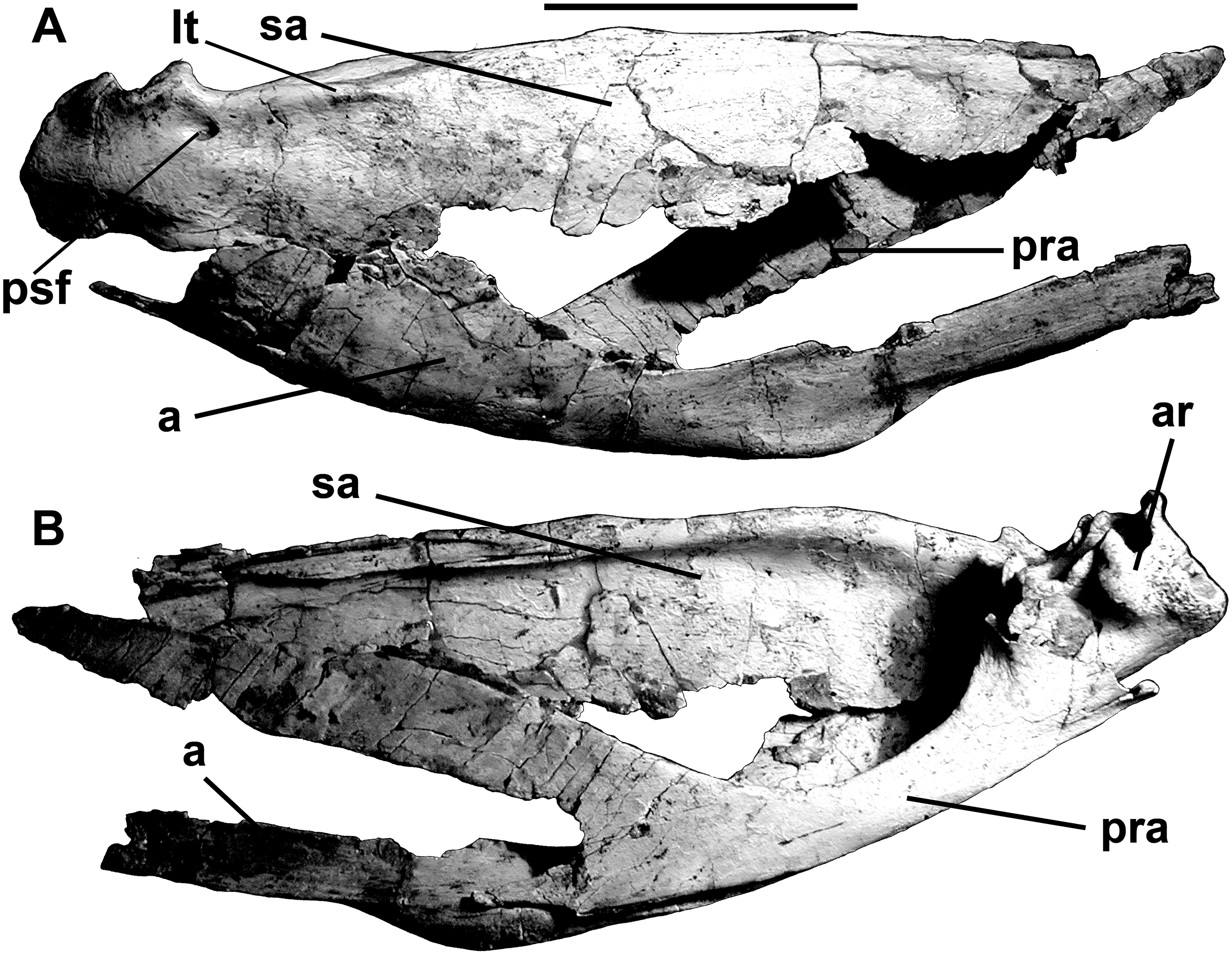 Articulated postdentary elements of Murusraptor barrosaensis, holotype, MCF-PVPH-411 in lateral (A) and medial (B) views. Abbreviations: a, angular; ar, articular; lt, lateral thickening; pra, prearticular; psf, posterior surangular foramen sa, surangular. Scale bar: 10 cm.